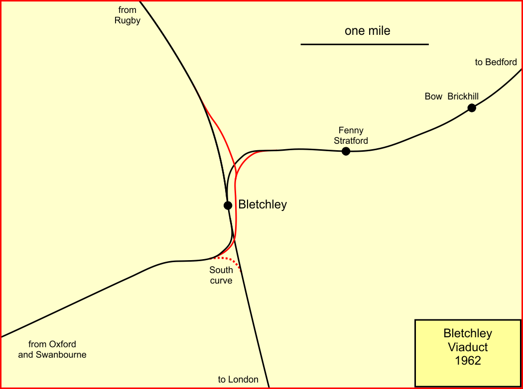 Diagram of the railway lines at Bletchley, UK, after completion of the flyover viaduct in 1962